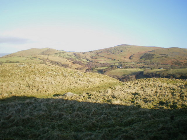 Roundton Hill to Corndon The path in the foreground drops down from the grassy top of Roundton Hill, through the gateway of the hillfort (the sunlit hummocks about 30 yards away). This view looks more or less north-northeast to Lan Fawr on the left, and the much higher summit of Corndon on the right.